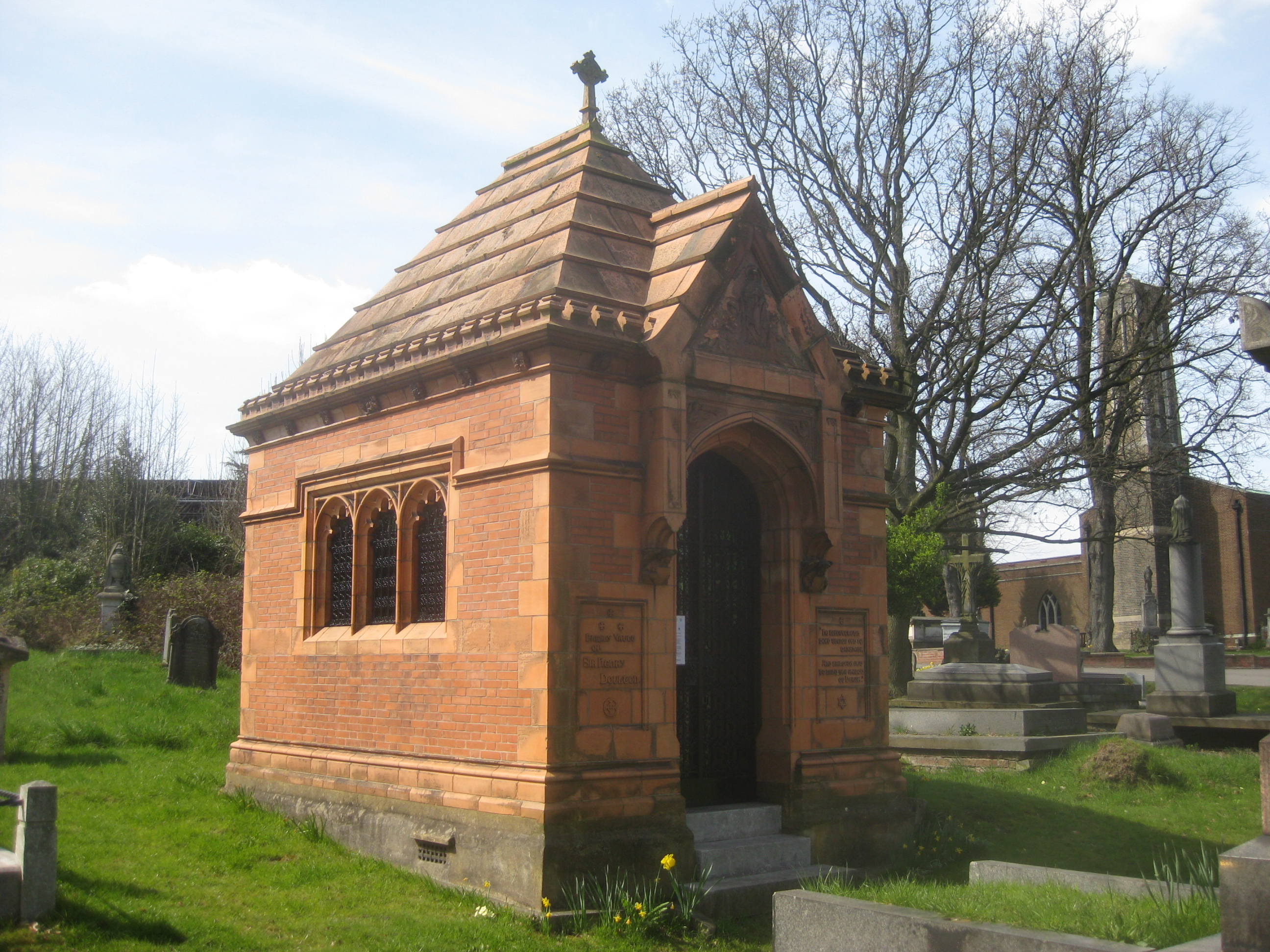 Doulton's tomb is decked out in terracotta tiles from his own factory. You can just about see the ornate interior if you peer through the side of the door.